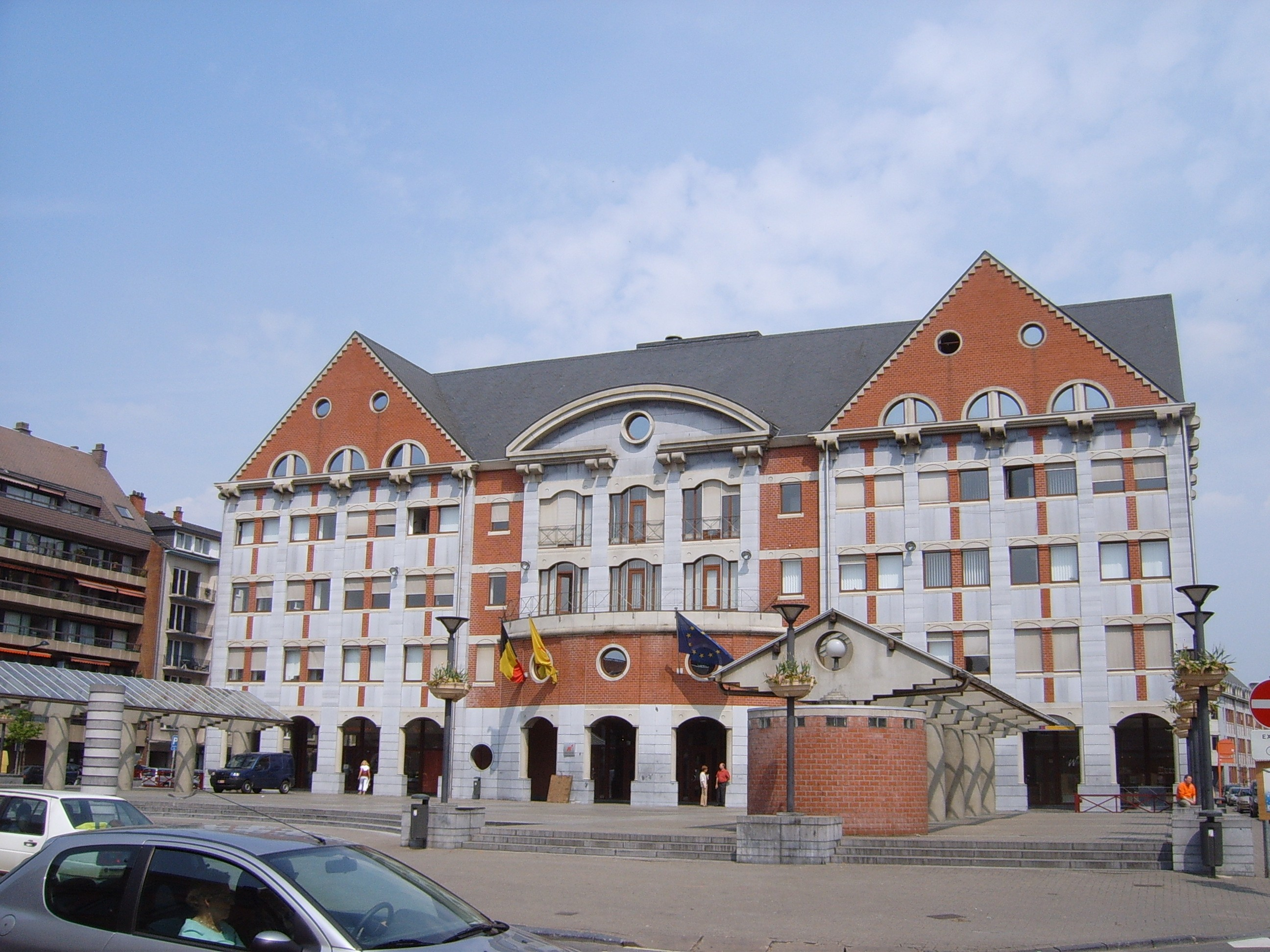 Région wallonne administration, main building in Jambes